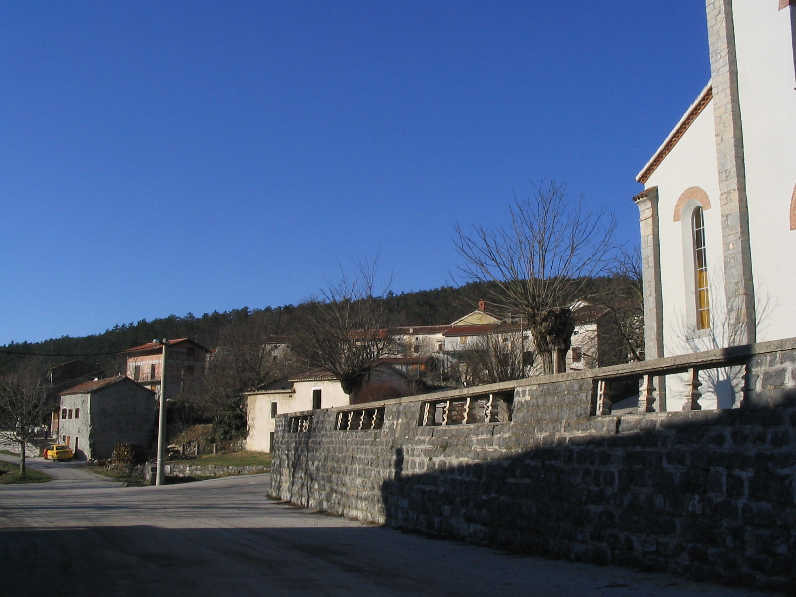 Street in fornt of the church in Lanišće, Istria, Croatia